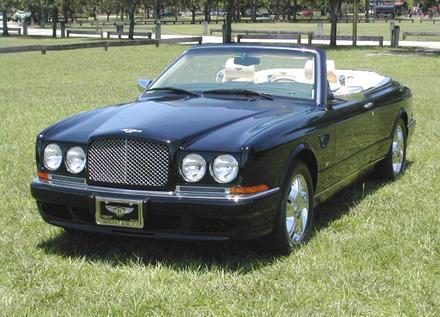 2003 Bentley Azure Mulliner Final Series Photographed in Jupiter, FL.